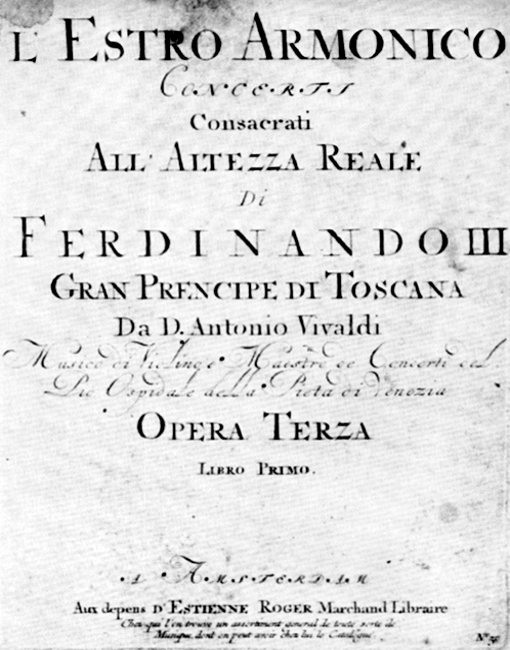 Title page of the Amsterdam's edition of "L'Estro Armonico" by Antonio Vivaldi